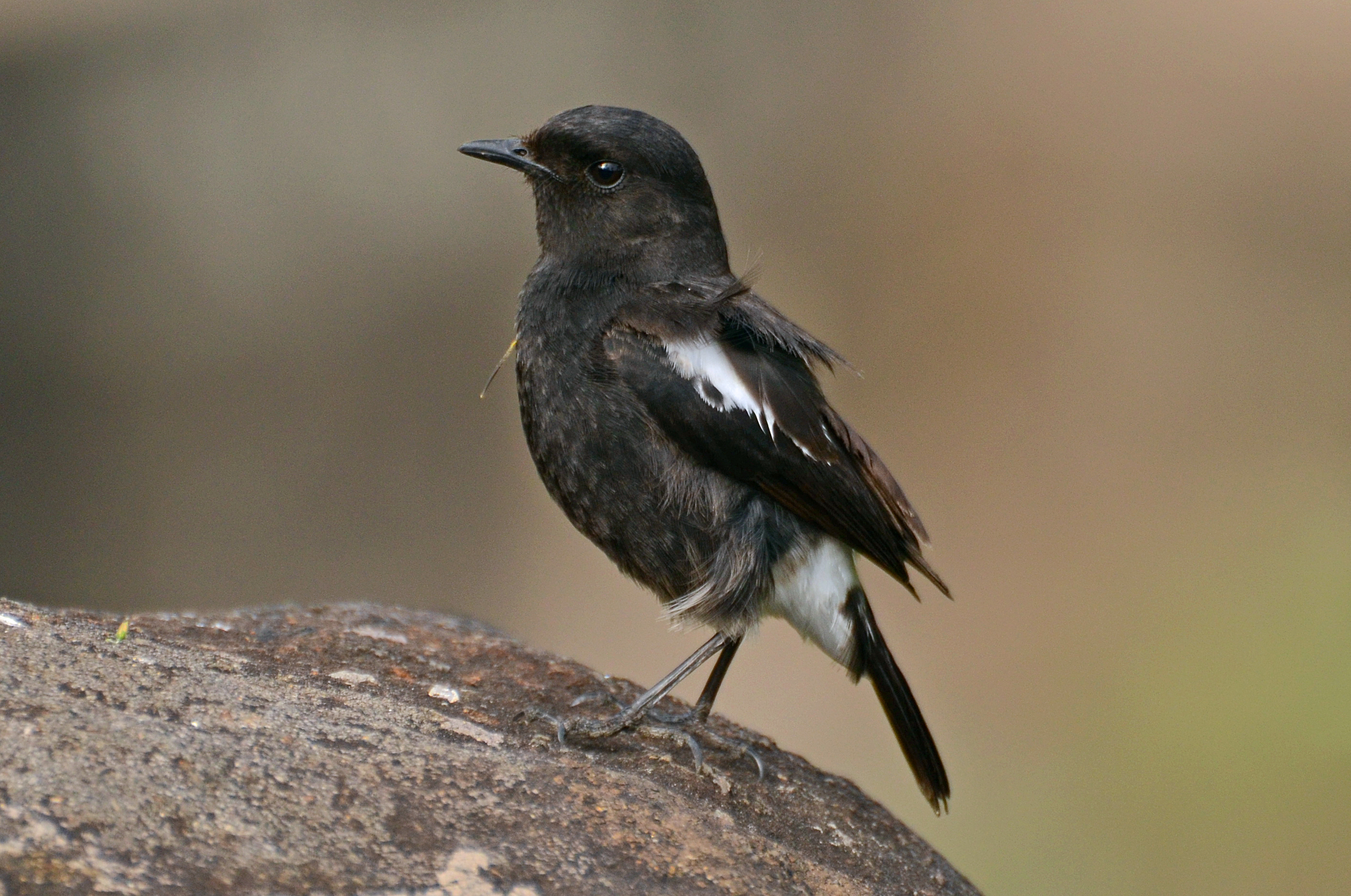 Pied bush chat (Saxicola caprata)male from nilgiris